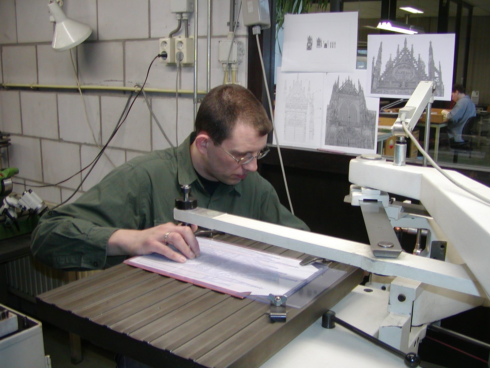 A manual copy-mill-machine.